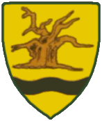 SADF Limpopo Commando badge